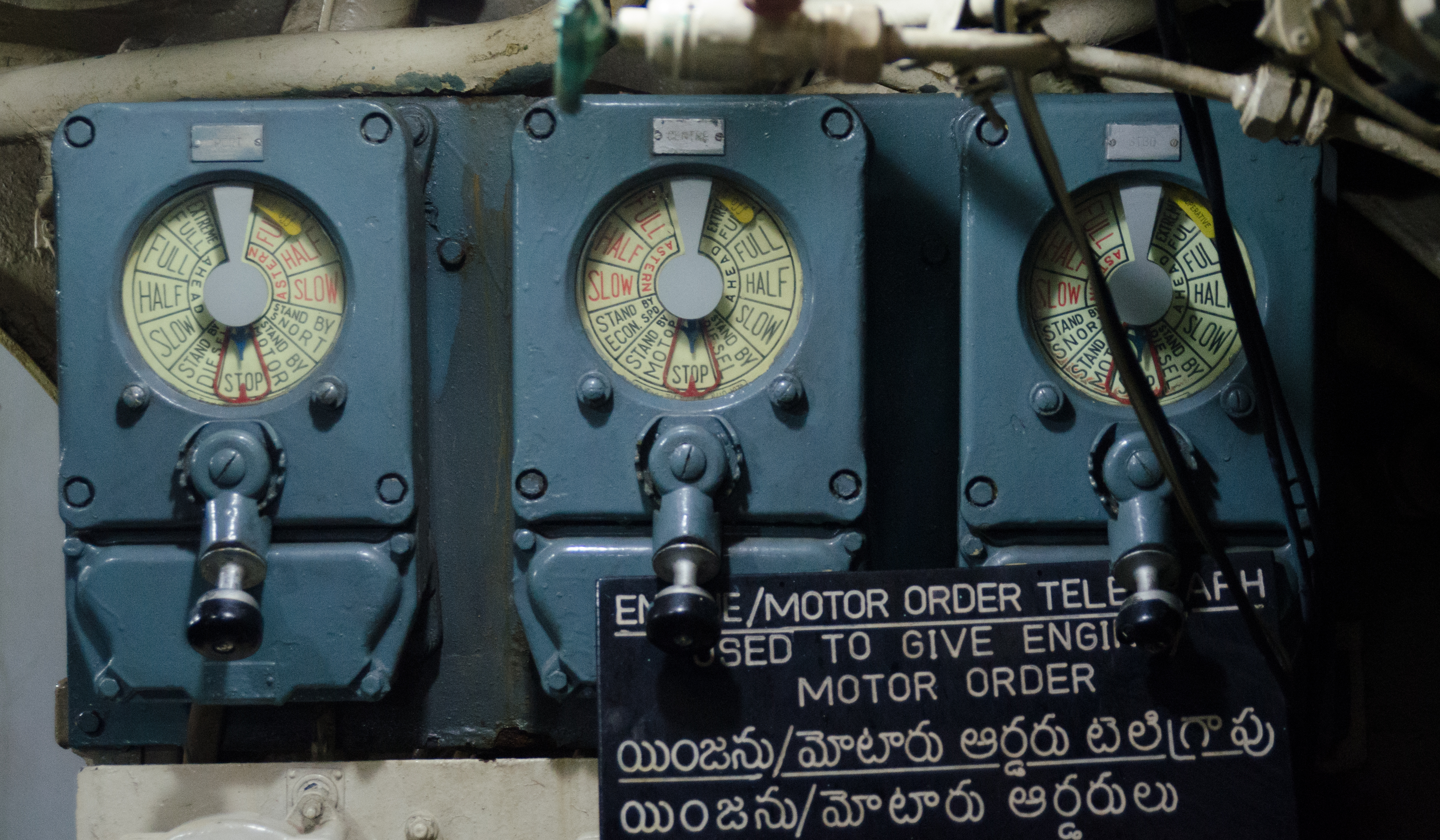 INS Kursura (S20) telegraph dials